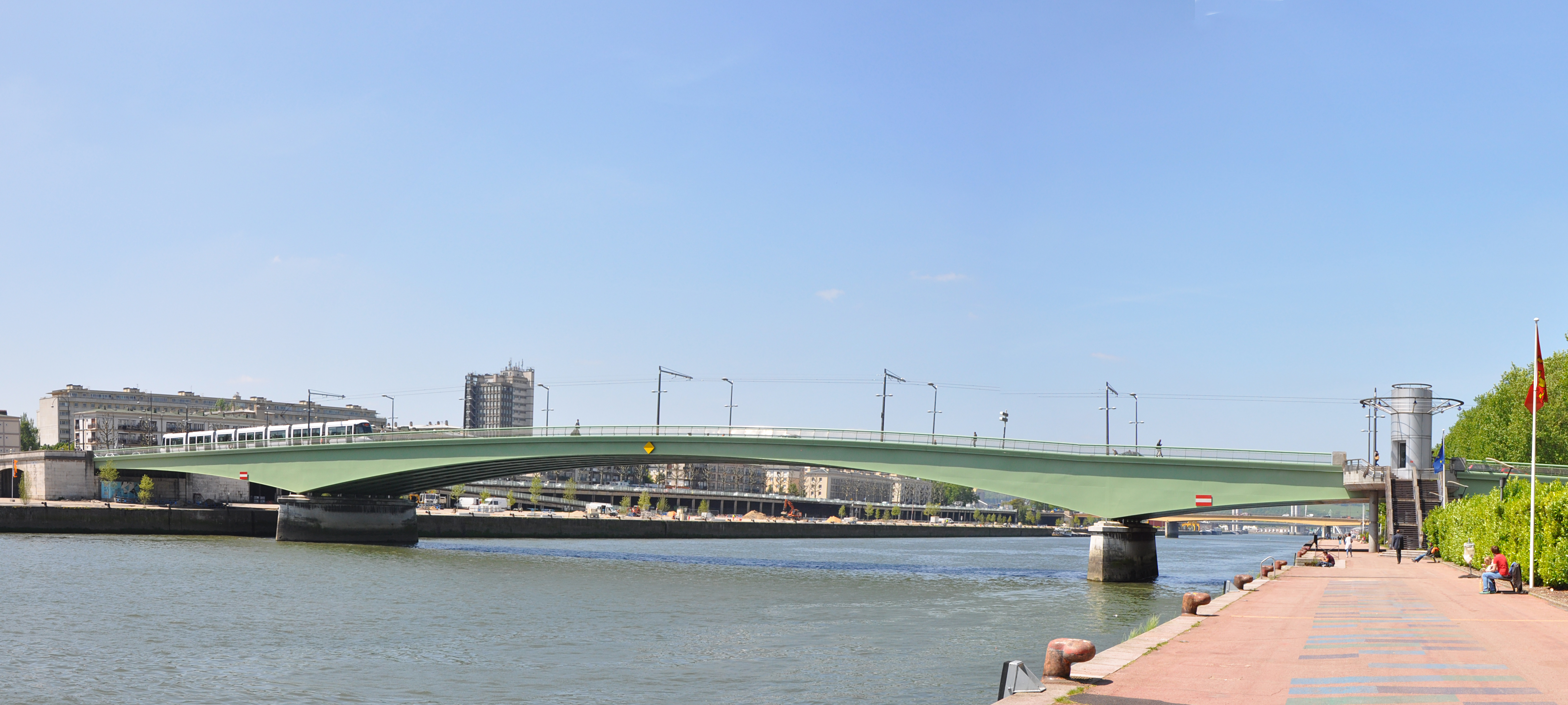 Bridge Jeanne d'Arc over Seine river in Rouen (France, Normandy)